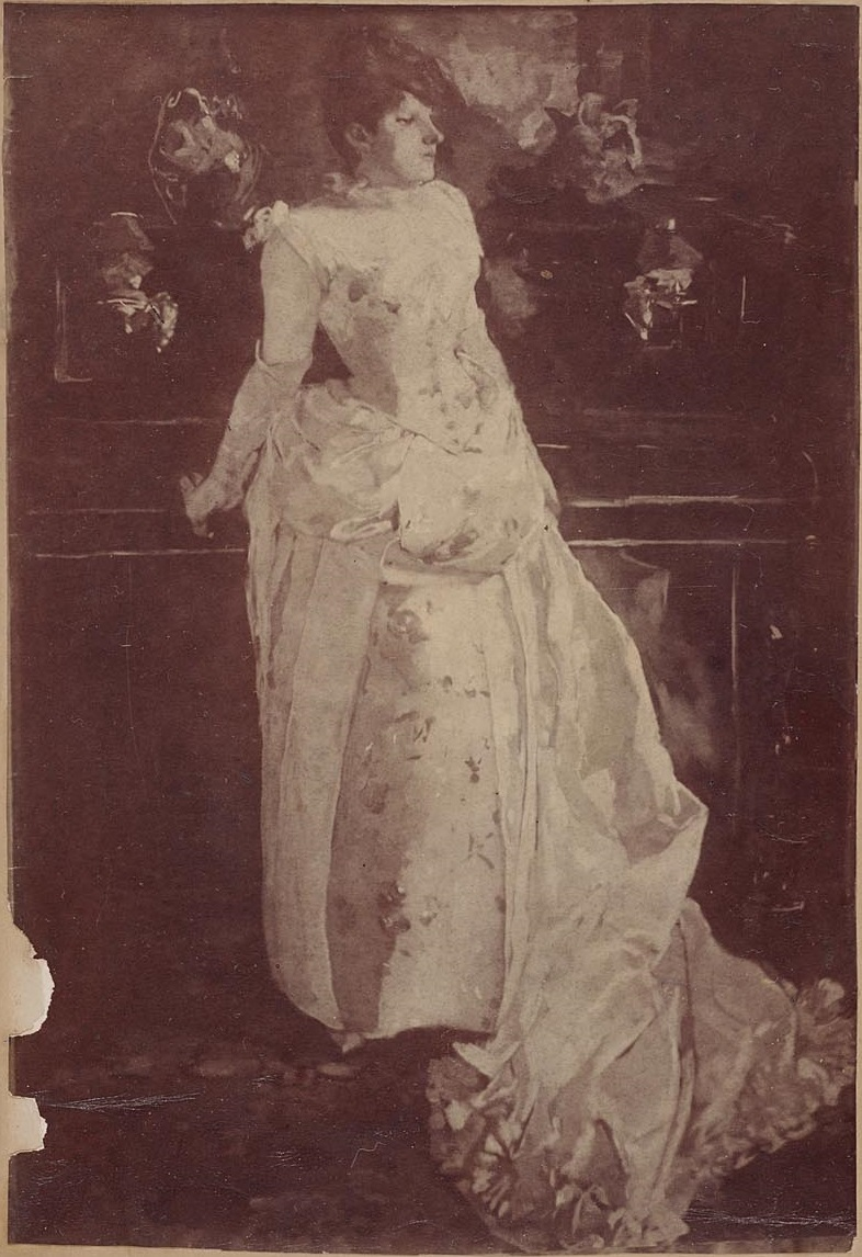 Portret van mevrouw Mann-Bouwmeester, originele versie 1887